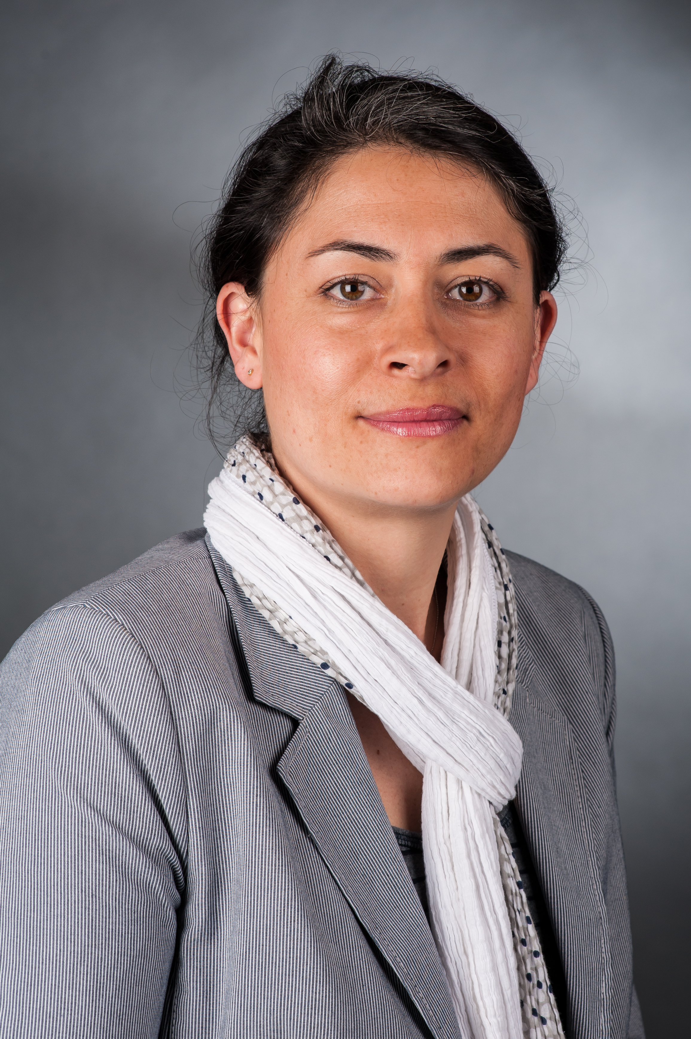 Wikipedia im Landtag – Niedersachsen 17. bis 18. April 2013 in Hannover Personality rights warningAlthough this work is freely licensed or in the public domain, the person(s) shown may have rights that legally restrict certain re-uses unless those depicted consent to such uses. In these cases, a model release or other evidence of consent could protect you from infringement claims.